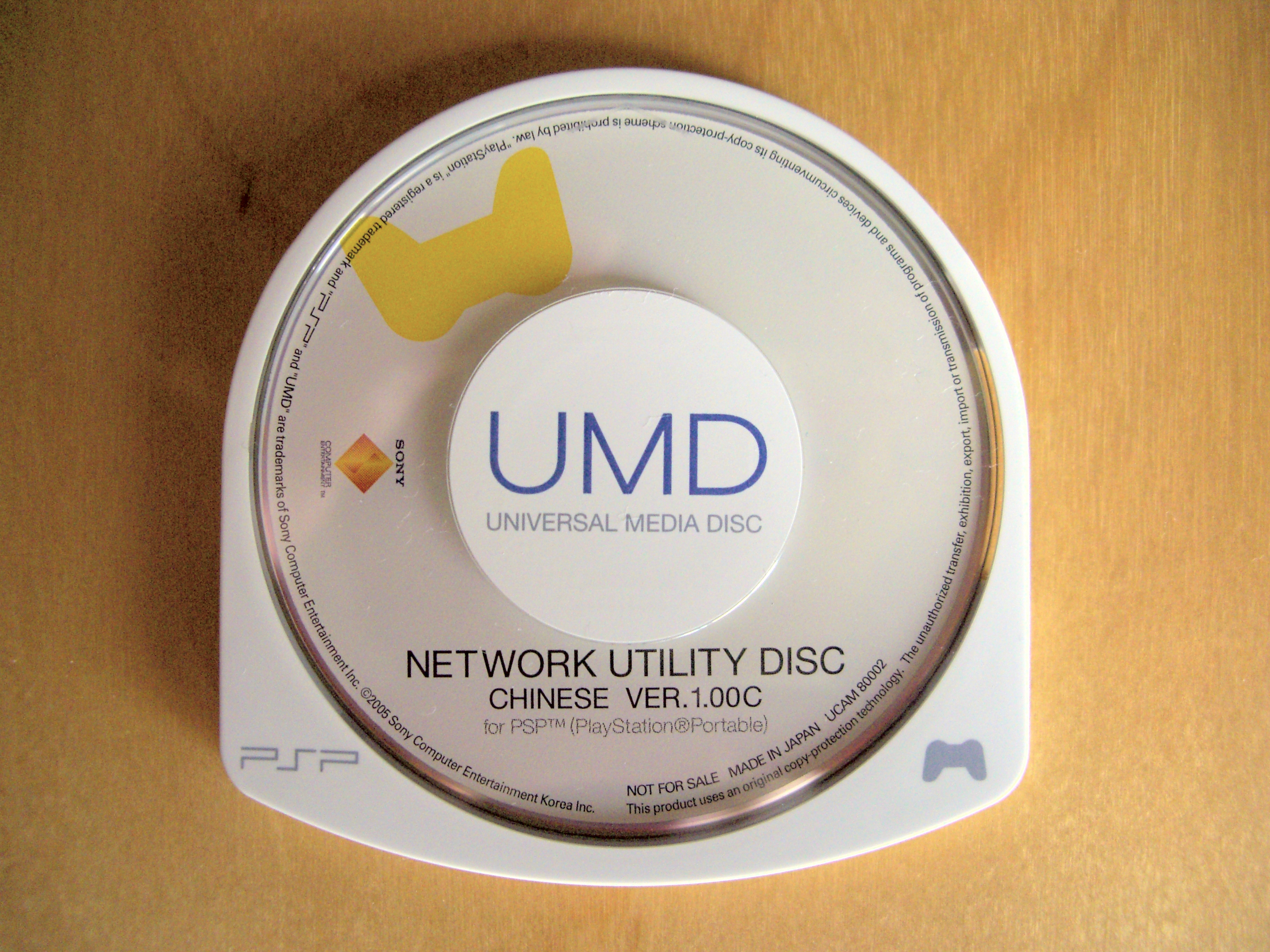 Front of a Universal Media Disc, for use in a PlayStation Portable system.